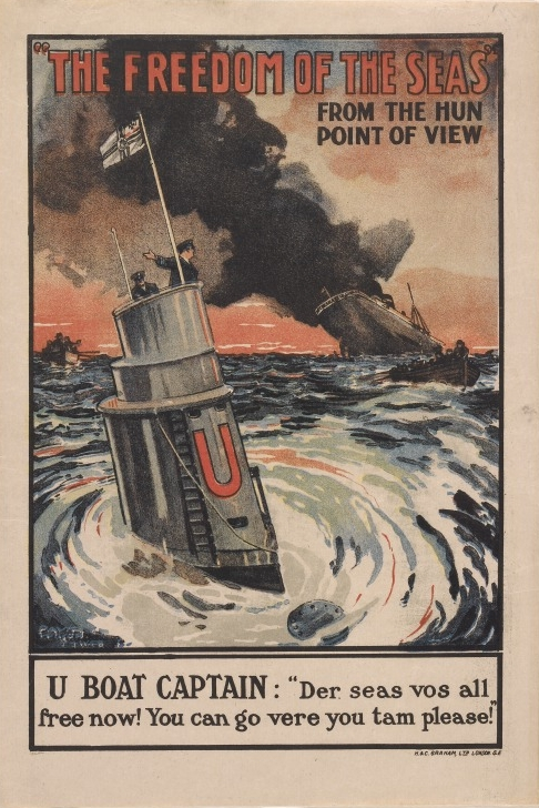 The Freedom of the Seas. From the Hun Point of View. British WWI propaganda poster, c. 1916, reaction to the sinking of RMS Lusitania in 1915